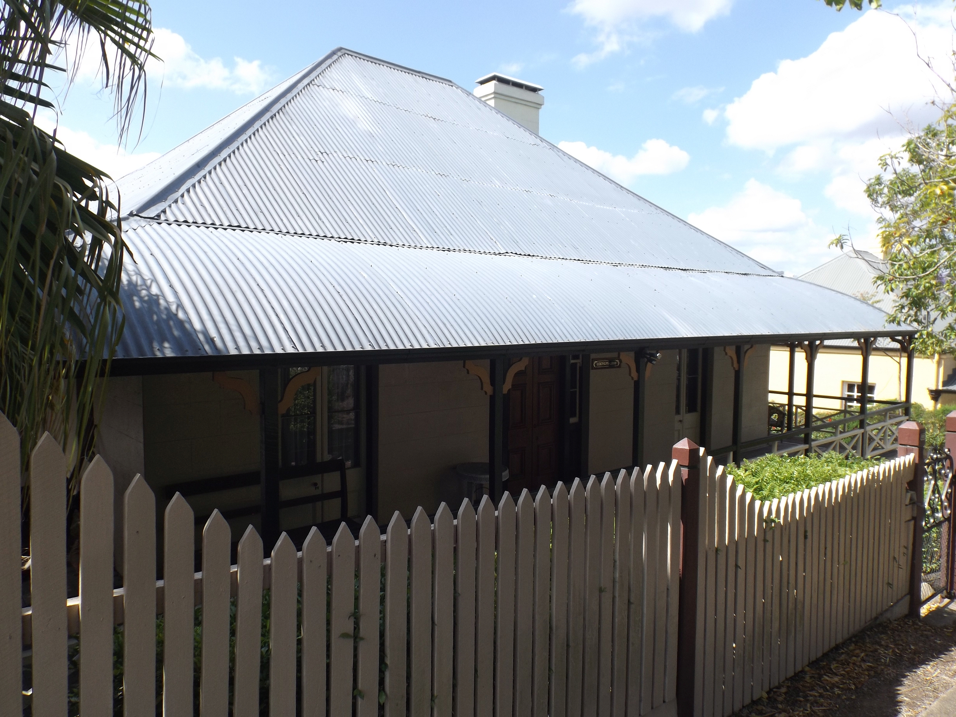 Photo of Colthup's House in Ipswich, Queensland, Australia.